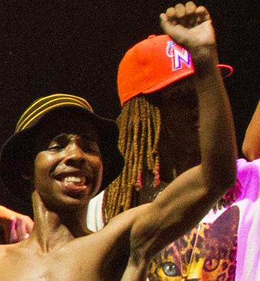 Earl Sweatshirt in Downtown, Los Angeles, 2012